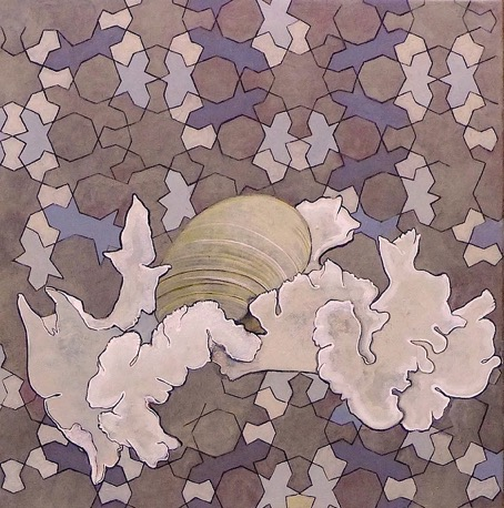 Artist: Brigitta Malche Title: Rose Bubble Technique: Oil on canvas Year: 2013 Size: 95 x 86 cm Owned by: Collection of the Canton of Zurich